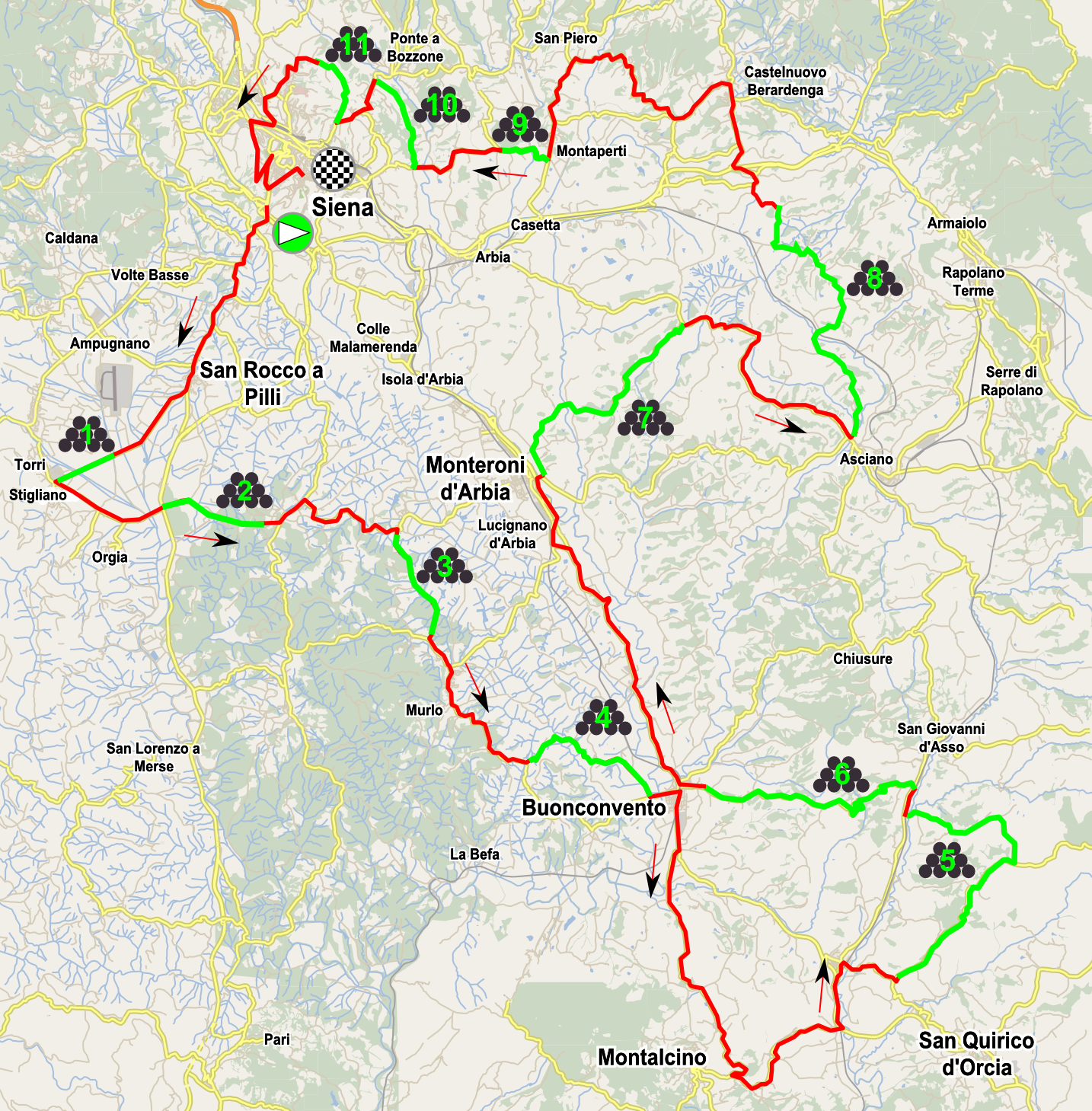 Map of the Strade Bianche 2017 (men). Note that the place of the start is not precise to avoid superposition with the arrival road.